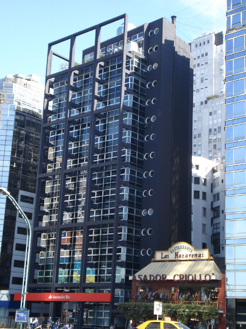 The Estuario Building (1979), in downtown Buenos Aires. Las Nazarenas, a popular local steakhouse, is visible at right.